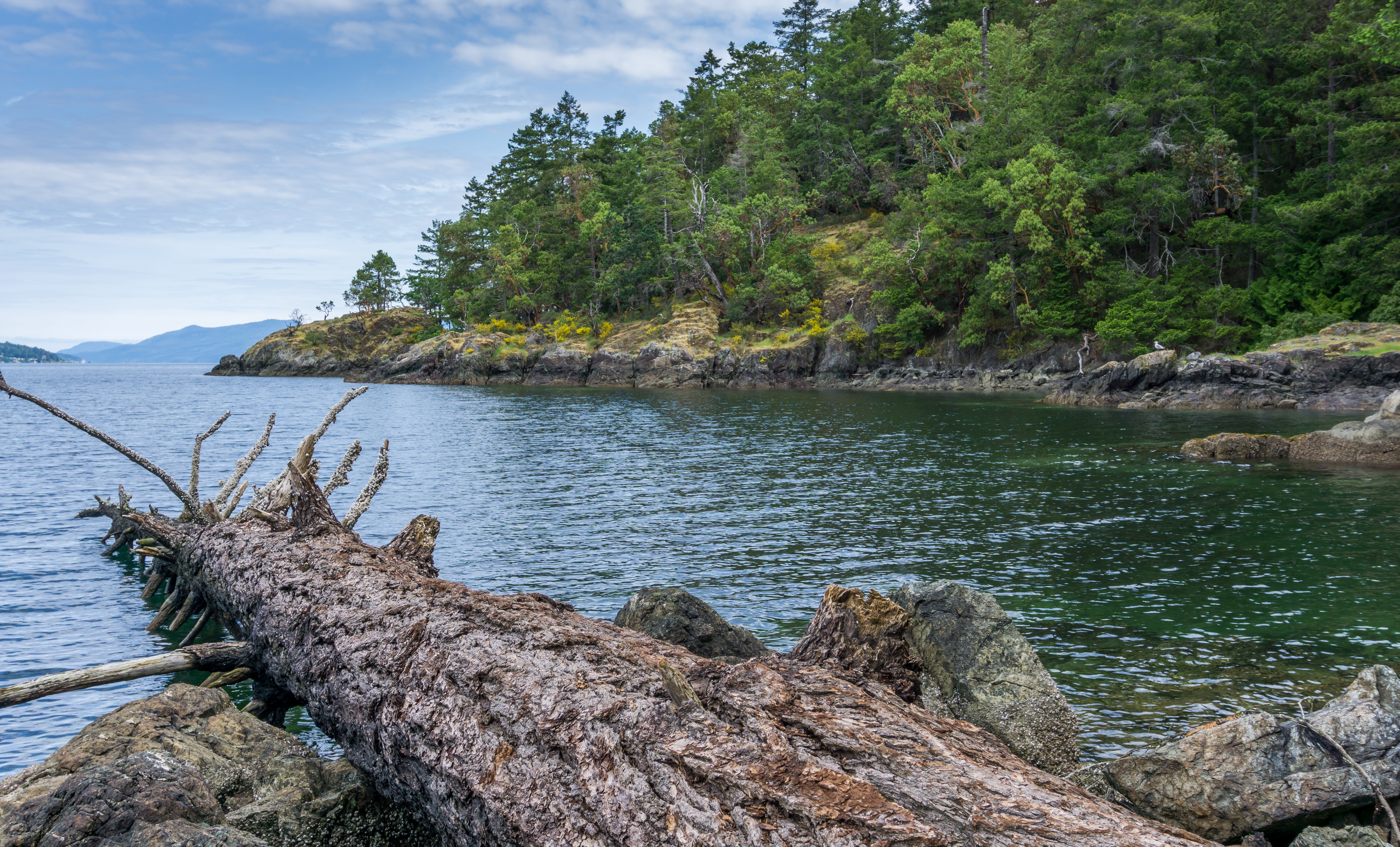 A small bay in Gowlland Tod Provincial Park, Vancouver Island, Canada